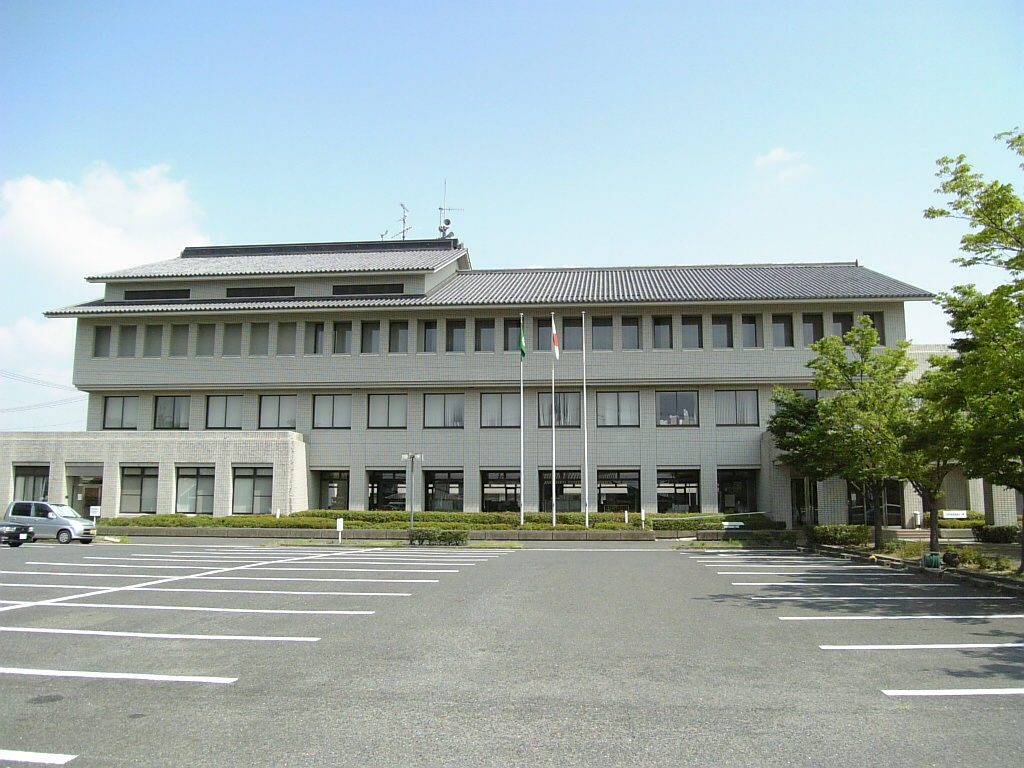 Kawanishi Town Office in Nara Prefecture, Japan